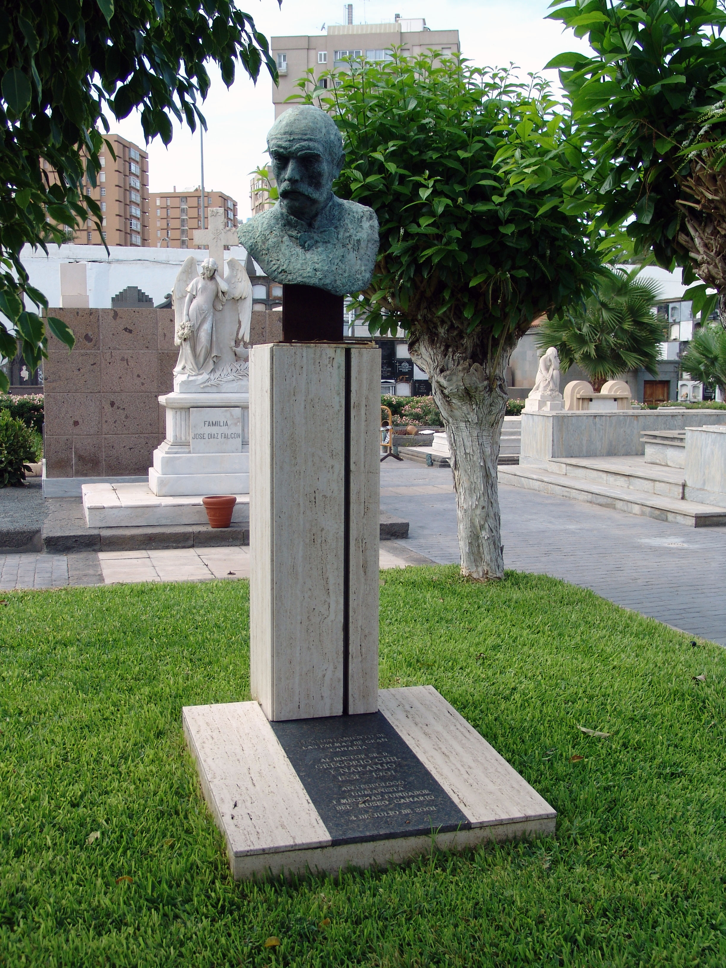 Memorial of Gregorio Chil and Naranjo, in the municipal cemetery of Las Palmas de Gran Canaria